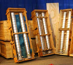 Among the nuclear weapons-related material that Libya permitted the United States to remove were these centrifuges acquired from Pakistan.